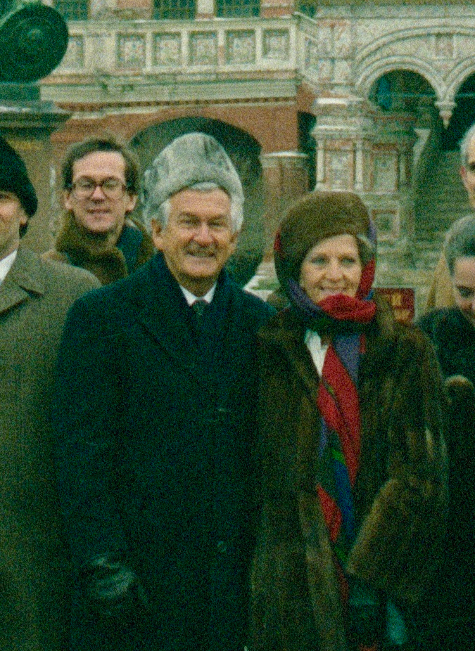 Prime Minister Bob Hawke, Hazel Hawke, Bill Hayden and others pose in front of St Basil's Cathedral, Red Square during their 1987 visit to the Soviet Union.